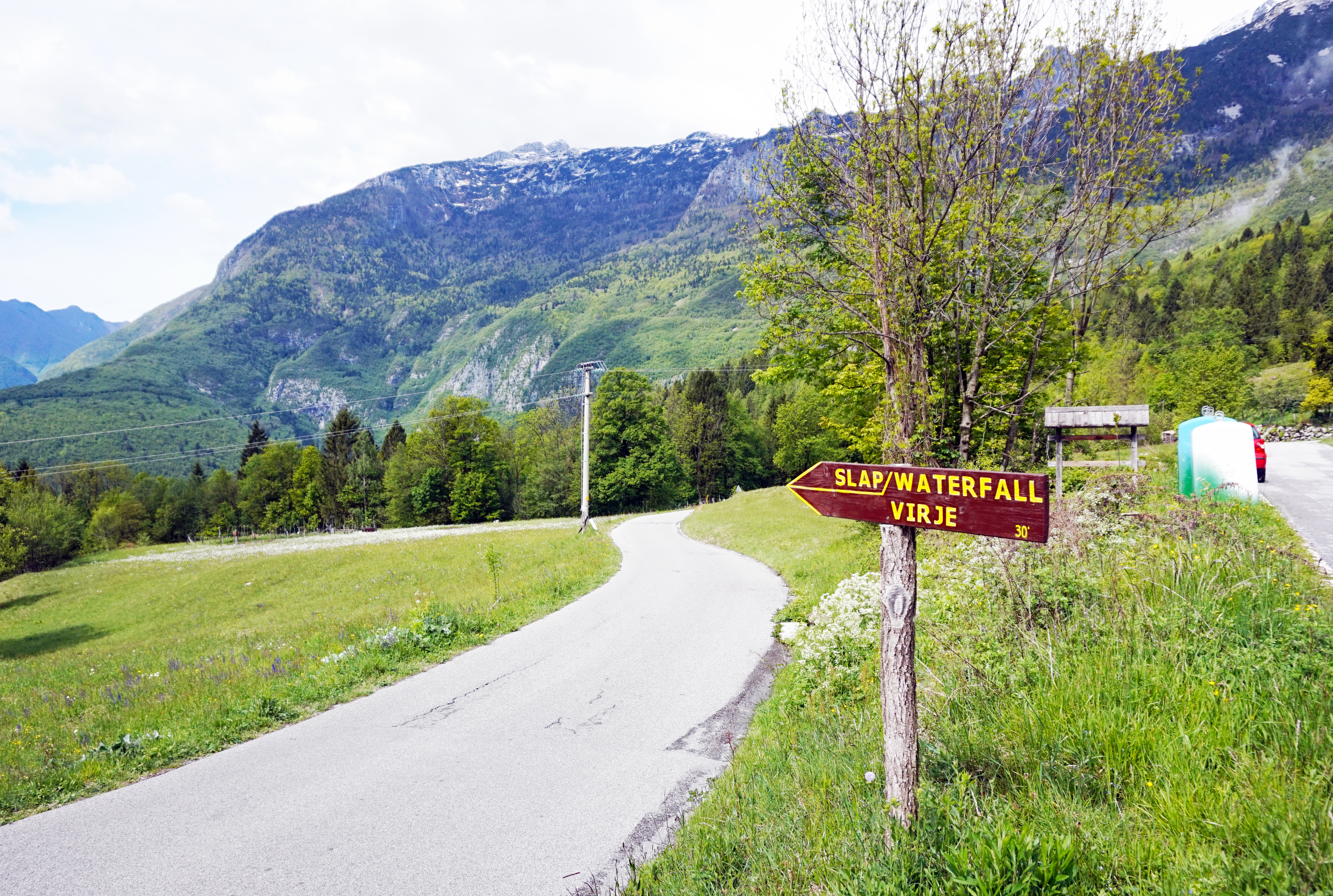 A sign to Waterfall Virje, Slovnia.This photograph was taken with a Sony ILCE-5000